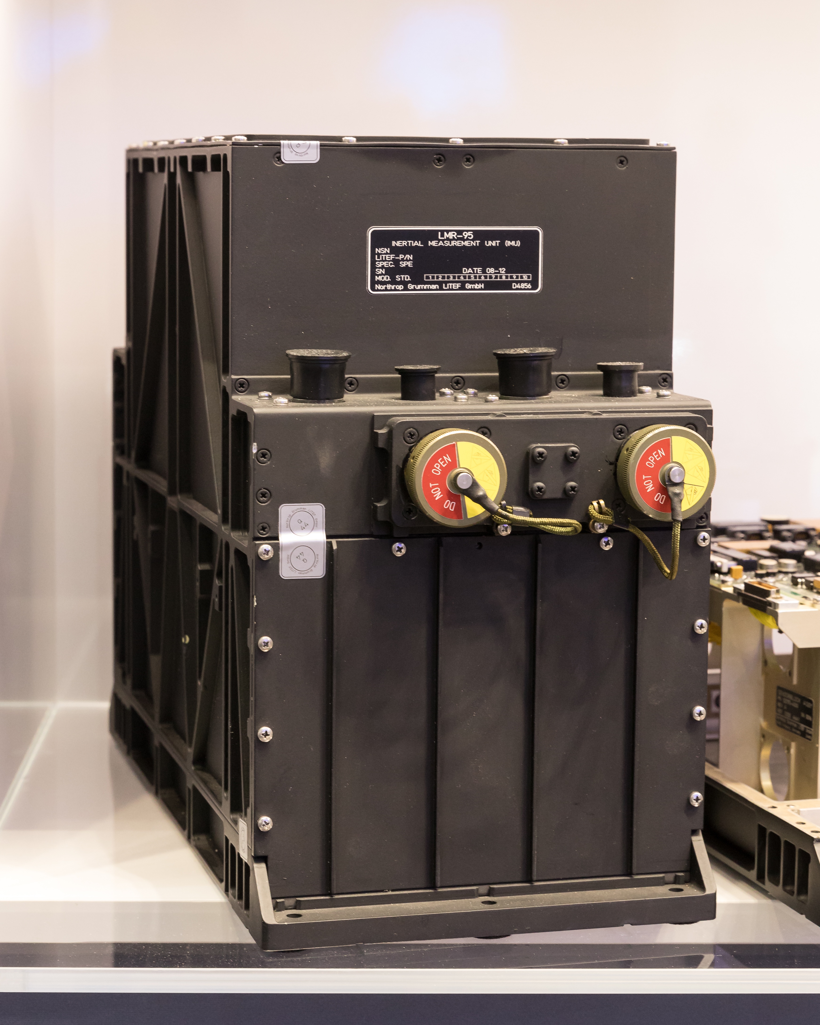 Northrop Grumman LITEF inertial measurement unit at ILA 2018